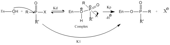 This reaction mechanism is based on a paper by T.Roy Fukuto "Mechanism of Action of Organophosphorus and Carbamate Insecticides" (1990). In this figure ChE is represented by En-OH, in which the OH is the hydroxygroup from the serine residue. R and R' represent the different groups that can be attached to the phosphorus and X is the leaving group. Kd is the dissociation constant between the enzyme-inhibitor complex and reactants, kp is the phosphorylation constant and ki is the bimolecular rate constant for inhibition